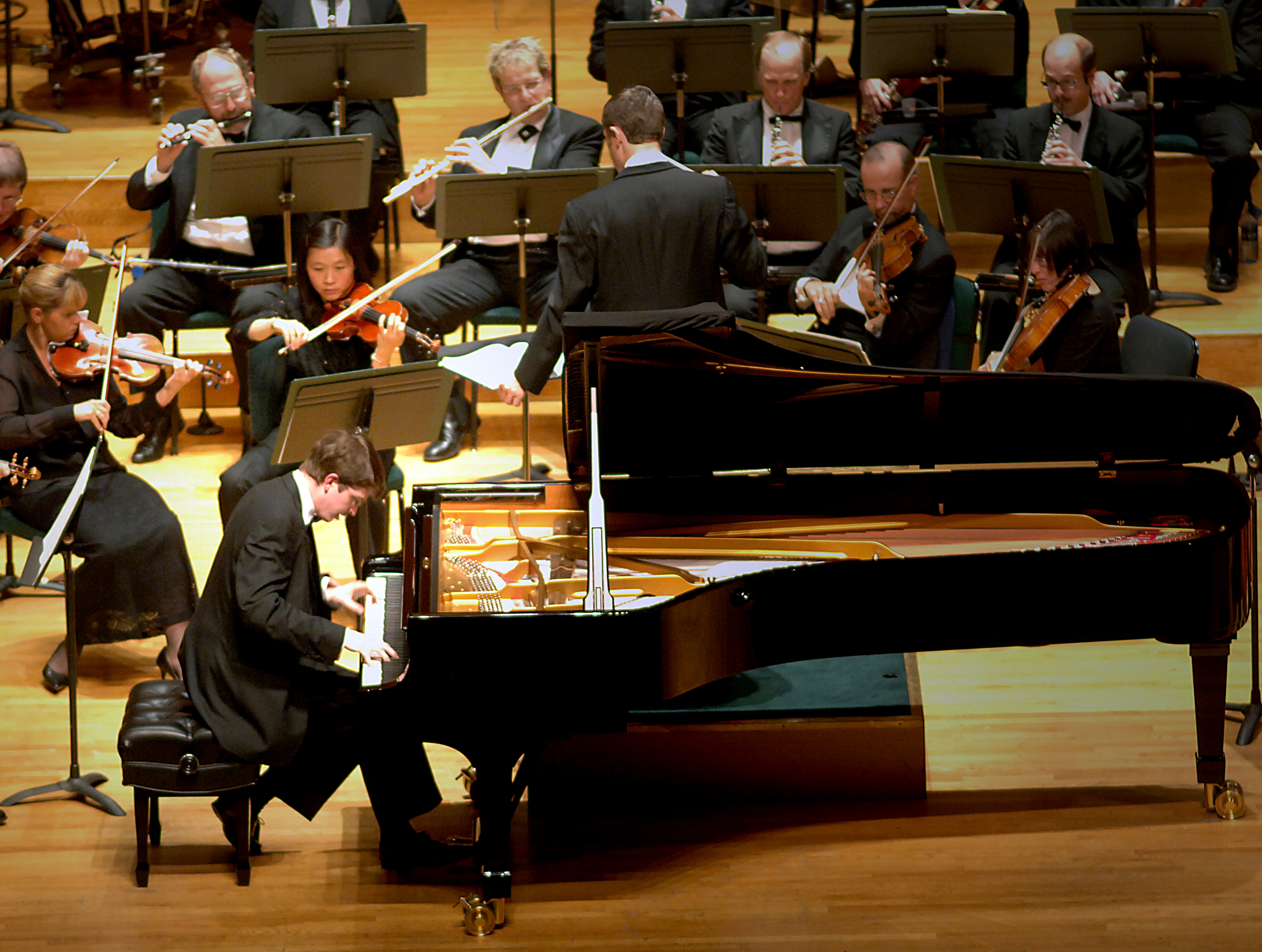 Stephen Beus performing in the 2006 Gina Bachauer International Piano Competition. Piano: Steinway & Sons concert grand piano.